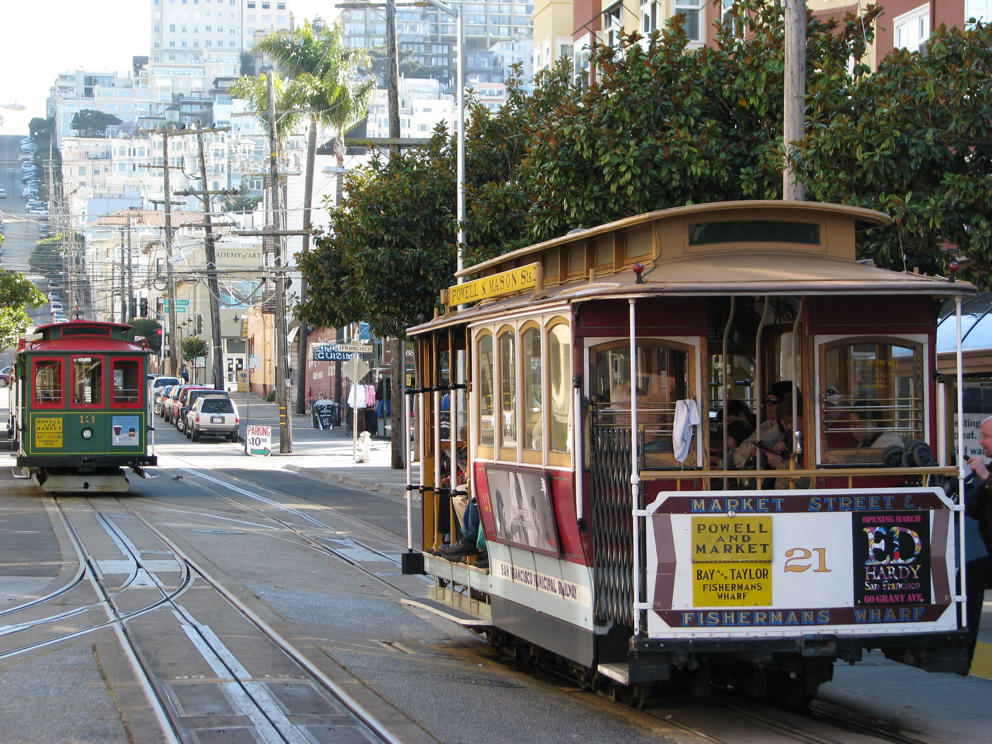 21 and #13 Cable cars on the Powell & Mason line at its northern terminus at Taylor & Bay.